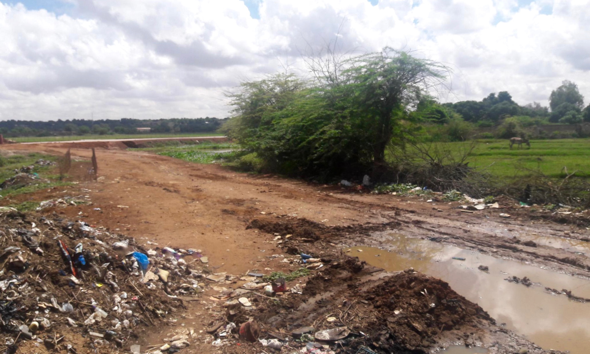 Rural Lamordé, Niamey.